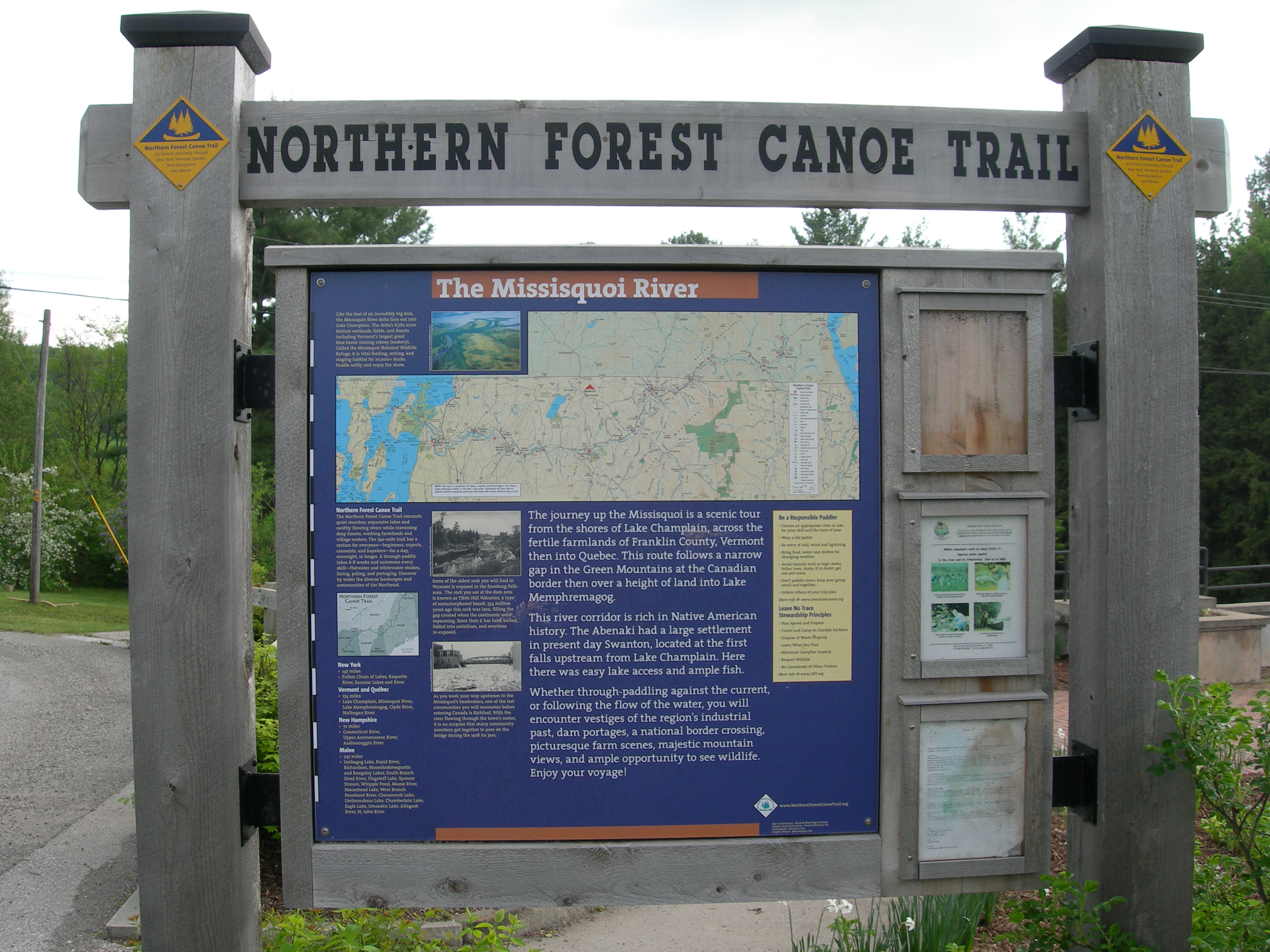 Northern Forest Canoe Trail sign in Enosburg Falls, Vermont